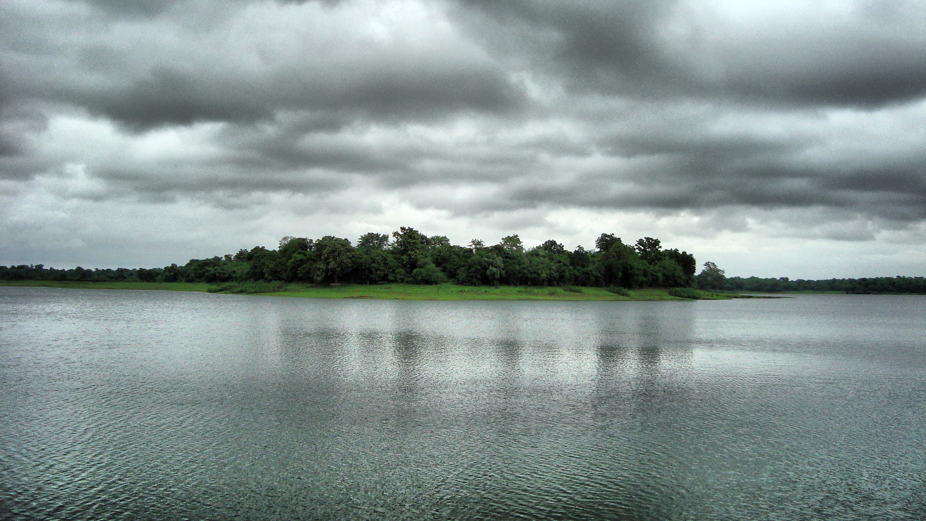 Khandari dam reservoir. Dumna Nature Reserve Park is an ecotourism site open to the public located in the Jabalpur district of the Indian state of Madhya Pradesh. It includes a dam, forests and wildlife in a 1058-hectare area. India